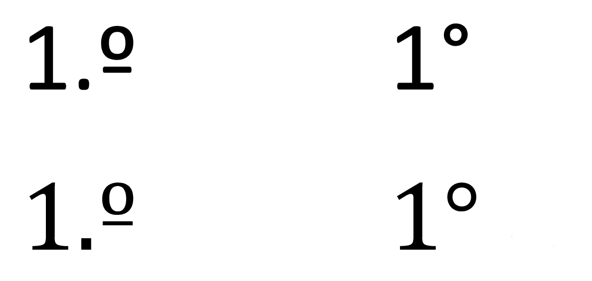 Difference between masculine ordinal indicator and degree sign.